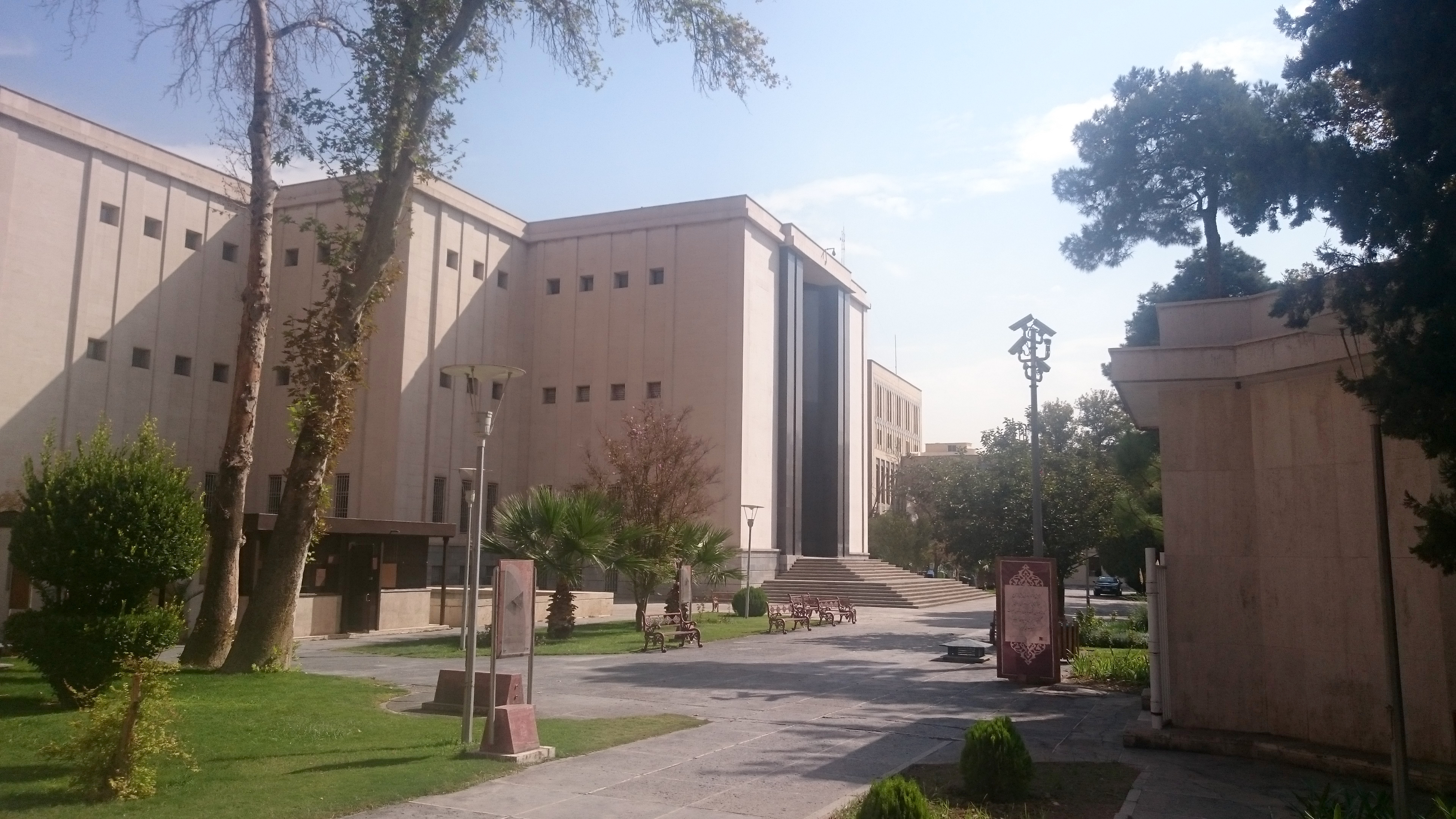 National Museum of Iran, Tehran